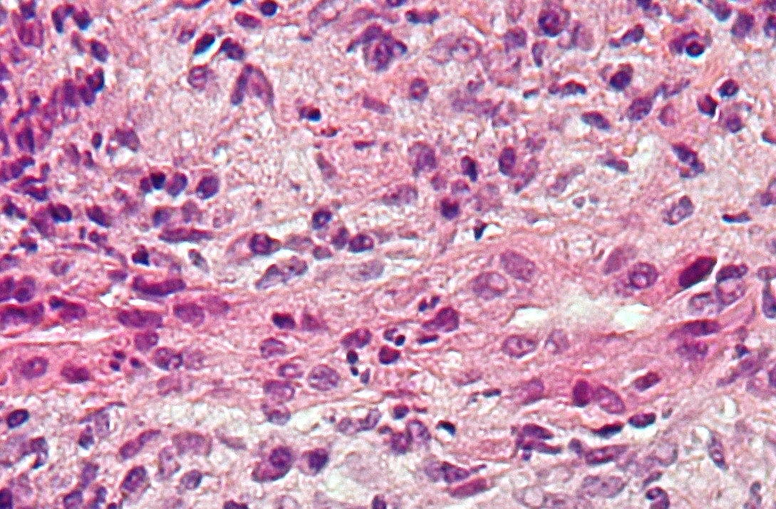 Intermediate magnification micrograph of primary biliary cirrhosis. Liver biopsy. H&E stain. Features: Bile duct intraepithelial lymphocytes - key feature. Bile duct epithelial cells with eosinophilic cytoplasm. Granulomata - close to the bile duct. Portal inflammation with mixed cell population, i.e. lymphocytes, plasma cells, eosinophils. See also Image:primary biliary cirrhosis low mag.jpg Image:primary biliary cirrhosis intermed mag.jpg